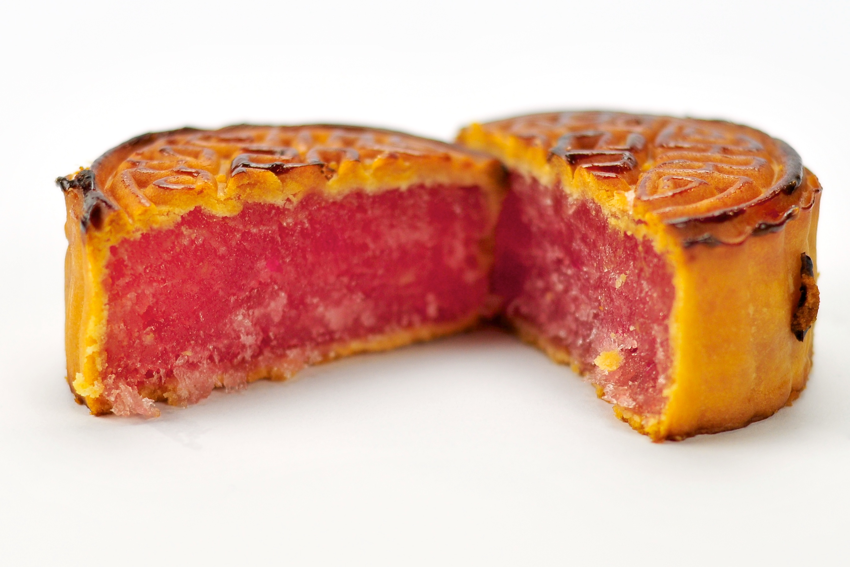 Chinese Moon Cake